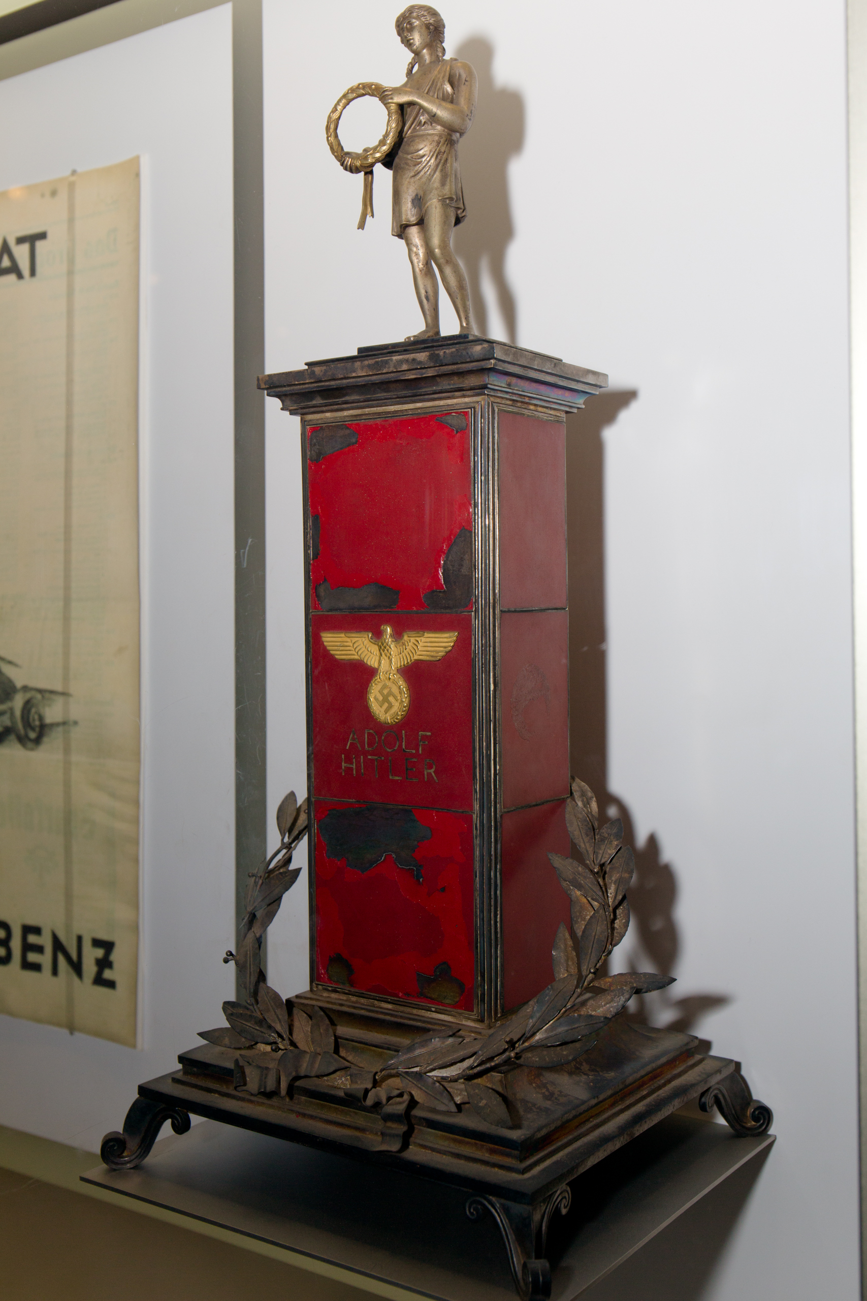 1939 German Grand prix winner's cup, won by Rudolf Caracciola.